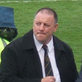 Photograph of John Coughlin, footballer and manager.